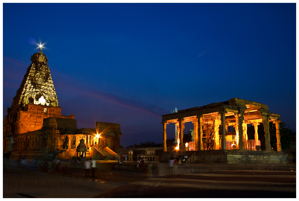 This is a SIX seconds exposure shot taken with the help of a wallet and a mobile as a stand, this picture was taken in Brihadeshwara Temple a.k.a Tanjore Big temple